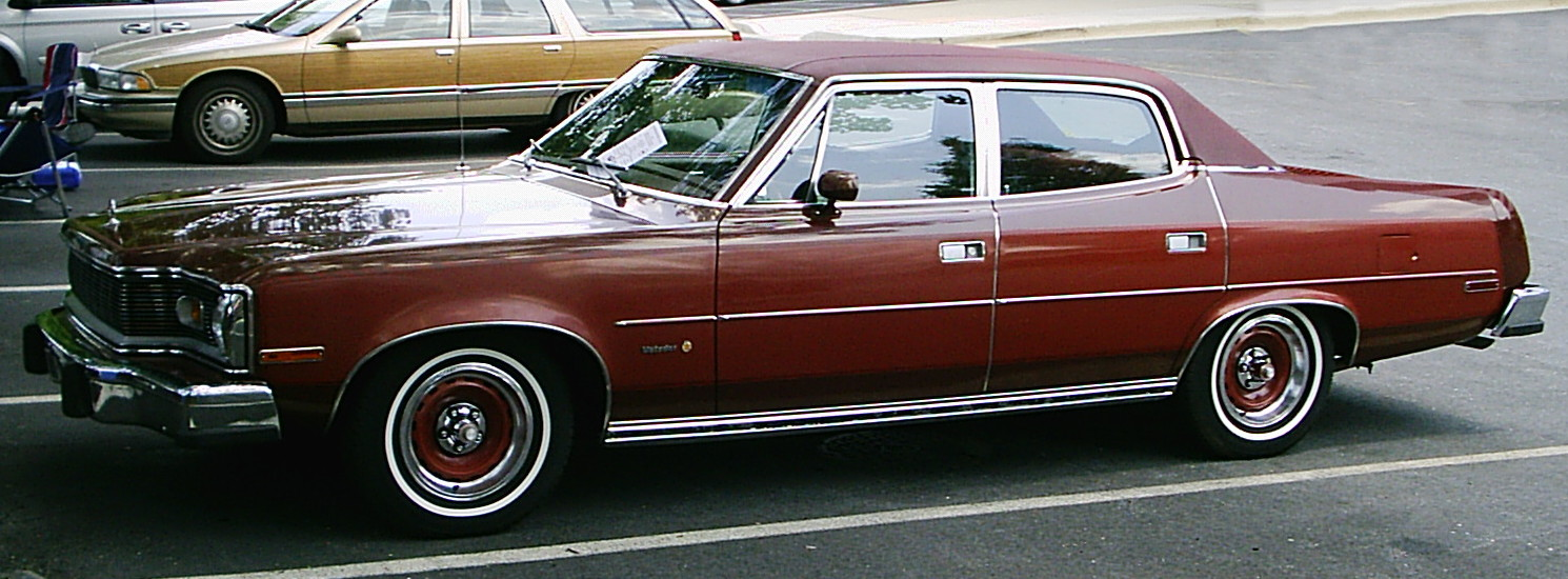 1978 AMC Matador sedan - Barcelona edition (the only model year the Barcelona was available as a four door). This was the last year for the full-sized cars made by American Motors. Picture was taken at a car show in in Maryland.